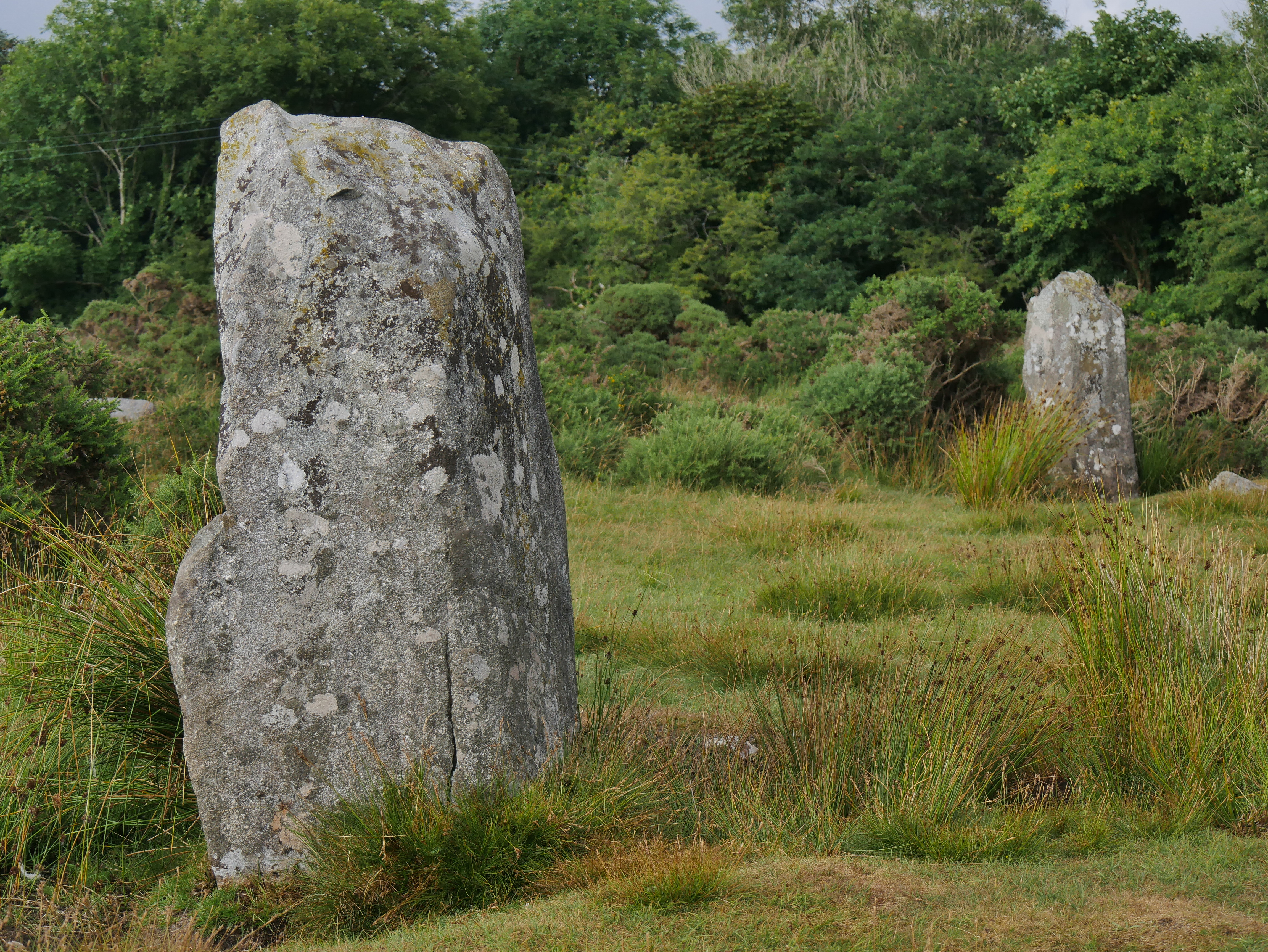 Gors Fawr Standing Stones